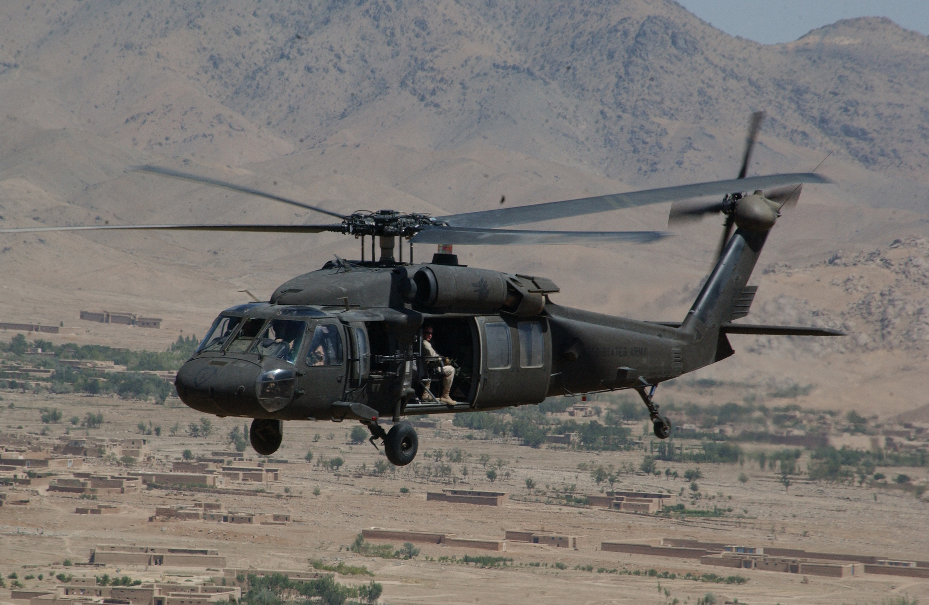 An Army UH-60 Black Hawk helicopter transports soldiers from Bagram Airfield over Ghazni, Afghanistan, on July 26, 2004. The soldiers are assigned to the 25th Infantry Division and deployed in support of Operation Enduring Freedom.